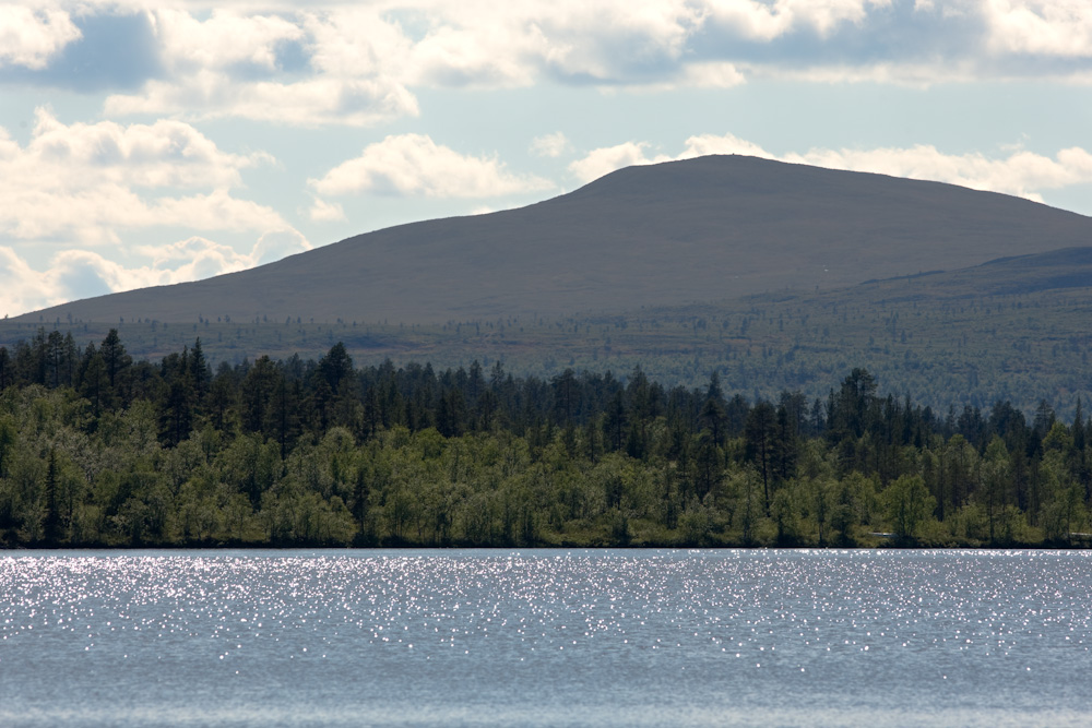 Ketojärvi lake in Enontekiö, Finland